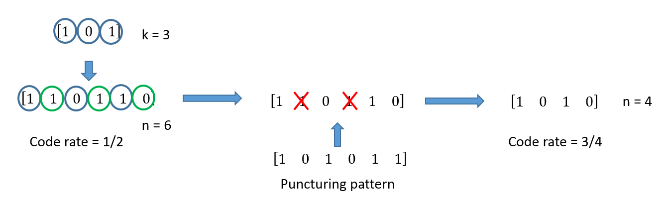 Illustration of the puncturing procedure. Python example: import numpy as np def puncturing(message, punct_vec): shift = 0 N = len(punct_vec) punctured = for idx, item in enumerate(message): if punct_vec[idx-shift*N] == 1: punctured.append(item) if idx%N == 0: shift = shift + 1 return np.array(punctured) def depuncturing(punctured, punct_vec, shouldbe): shift = 0 shift2 = 0 N = len(punct_vec) depunctured = np.zeros((shouldbe,)) for idx, item in enumerate(depunctured): if punct_vec[idx - shift*N] == 1: depunctured[idx] = float(punctured[idx-shift2]) else: shift2 = shift2 + 1 if idx%N == 0: shift = shift + 1; return depunctured message = np.array([1, 2, 3, 4, 5, 6, 7, 8]) punct_vec = np.array([1, 1, 0]) punctured = puncturing(message, punct_vec) print(punctured) depunctured = depuncturing(punctured, punct_vec, len(message)) print(depunctured)